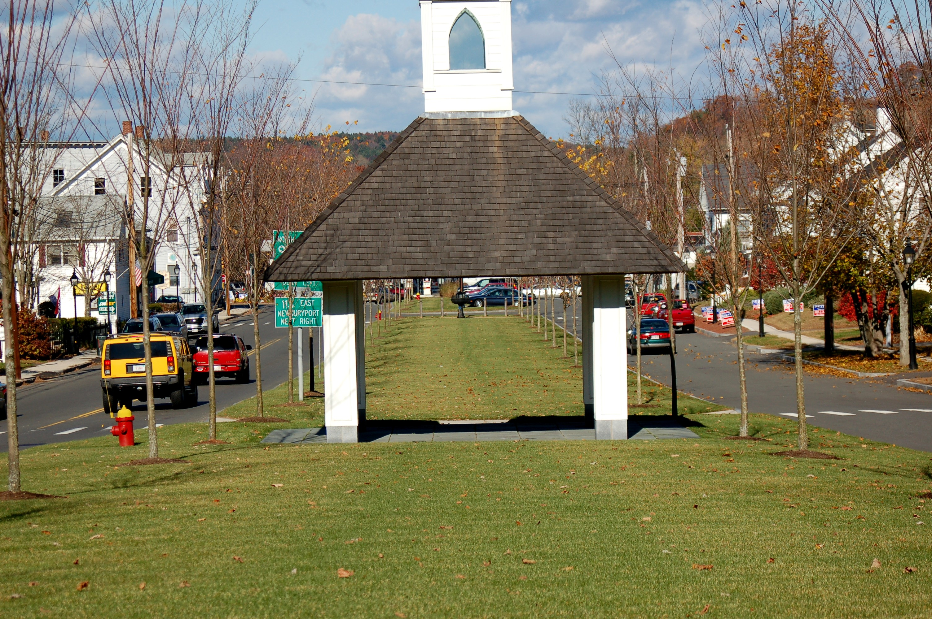 Elm Park at Groveland, Massachusetts. Photo taken by Author, Richard B. Johnson.